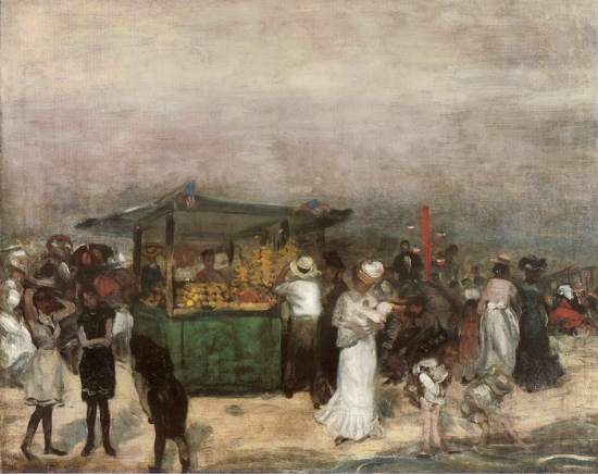 Painting by William James Glackens - Fruit Stand Coney Island 1898